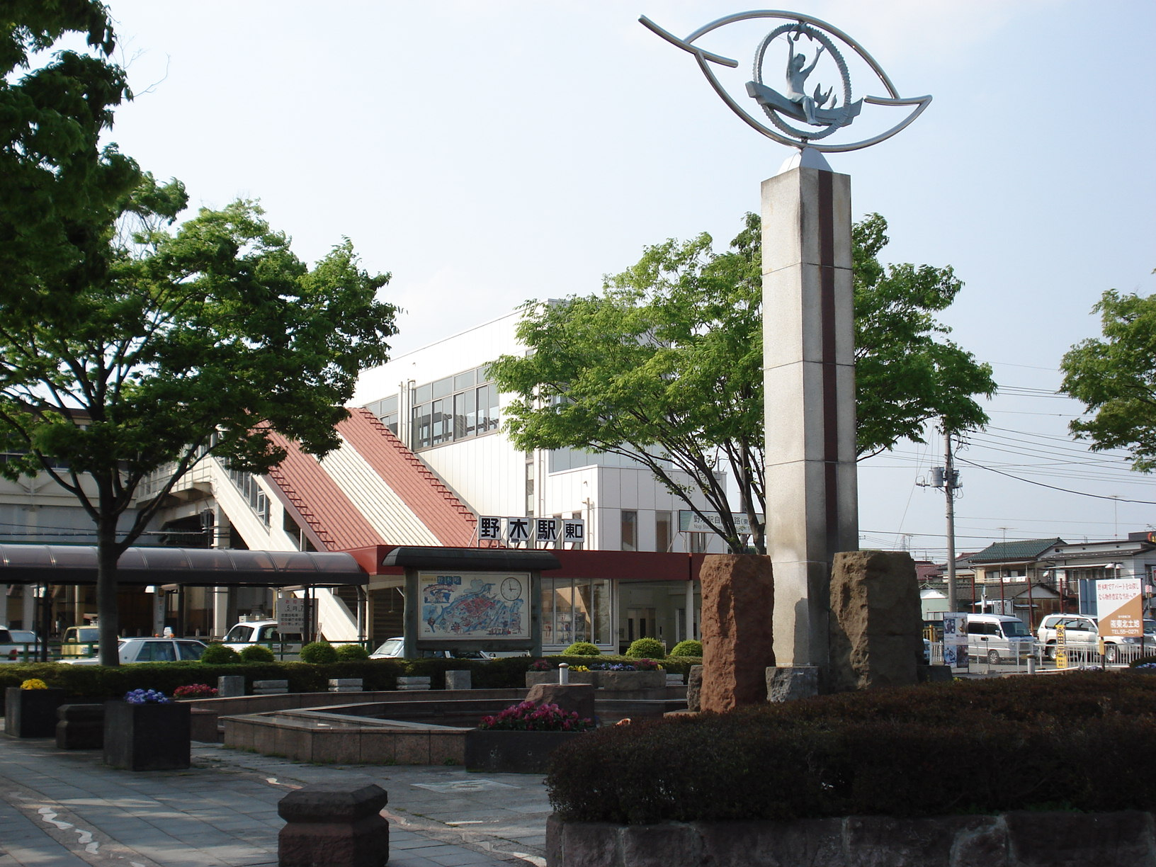 East Exit of Nogi Station, Utsunomiya Line